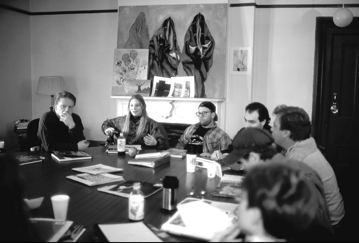 Humanities 1 class, focusing on the visual arts, held at Shimer College in Waukegan, Illinois, some time between 1998 and the school's move to Chicago in 2006.